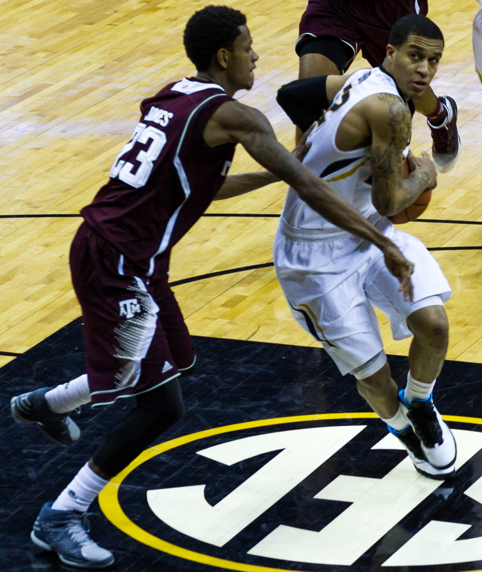 Missouri guard Jabari Brown pushes past Texas A&M's Jamal Jones.